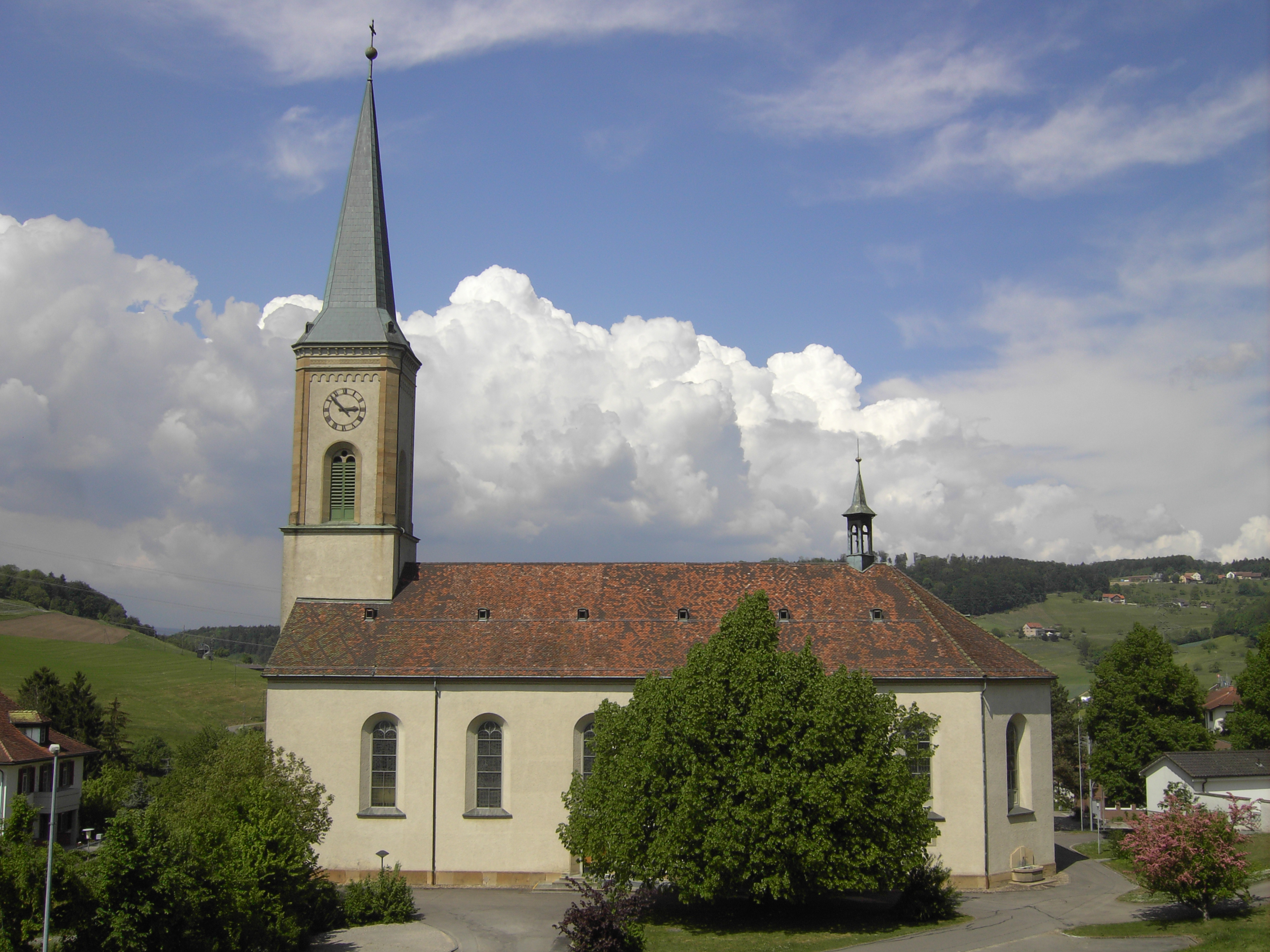 Church in Sulz AG, Switzerland